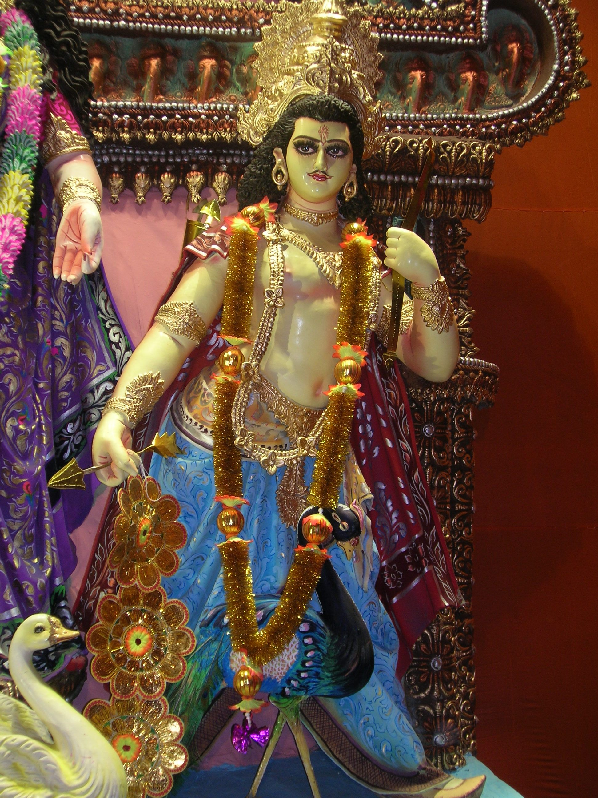 Kartikeya at Barisha Sarbojanin Durga Puja Samiti, Kolkata, 2010.